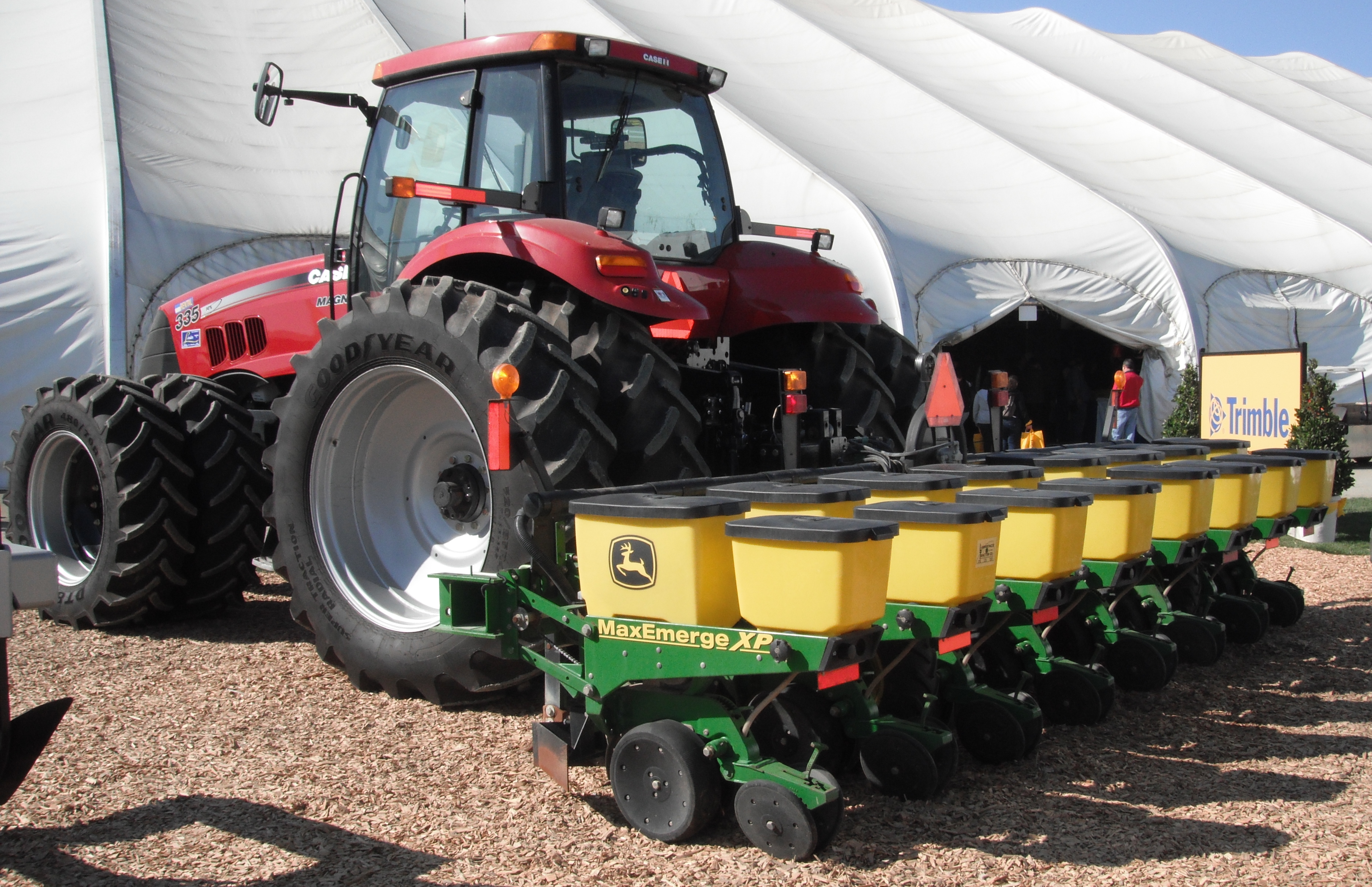 A John Deere Max Emerge XP corn planter behind a Case IH Magnum 335 with AFS precision farming system, World Ag Expo 2011. The AFS controls the planter to sow the seeds without overlaps even when irregular shaped field requires overlapping passes.